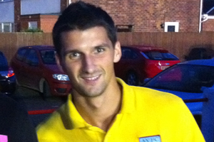 Photo of Eric Lichaj taken by myself following the friendly game between Tamworth and Aston Villa on 4 August 2011 at The Lamb Ground in Tamworth.